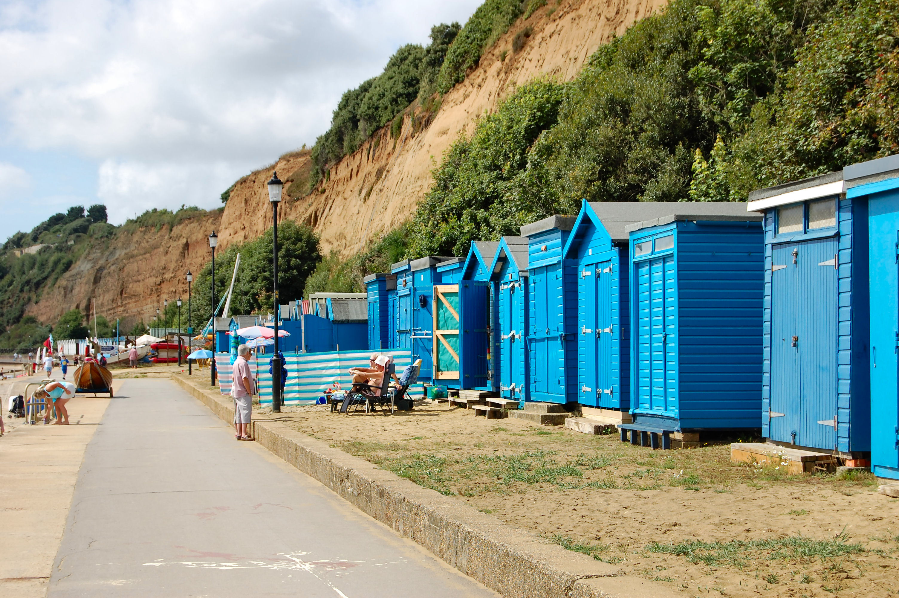 One of the great british traditions. The beach hut.Taken near Sandown on the Isle of Wight. UK.